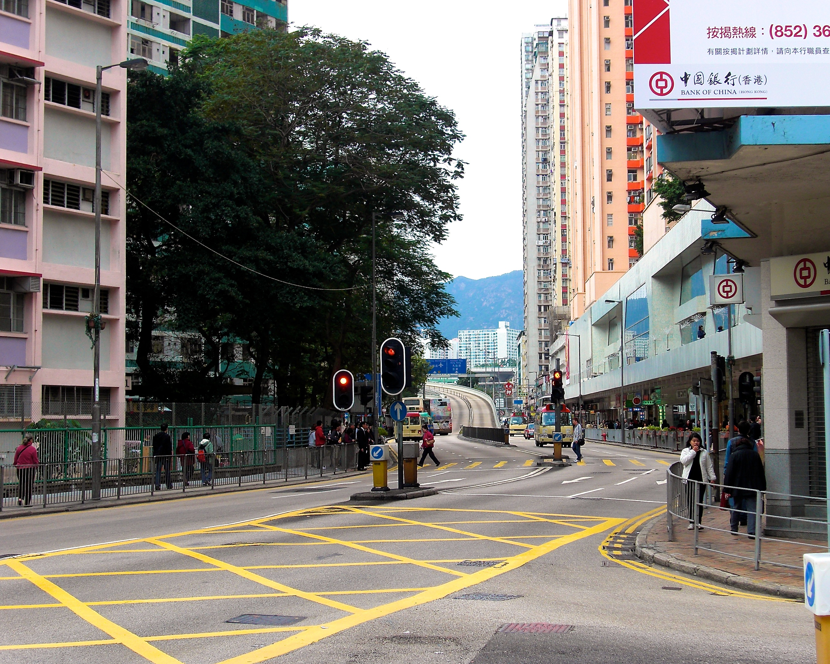 A view taken from the junction between Ngau Tau Kok Road and Jordan Valley North Road towards the north. Lower Ngau Tau Kok Estate stands in the left hand side.